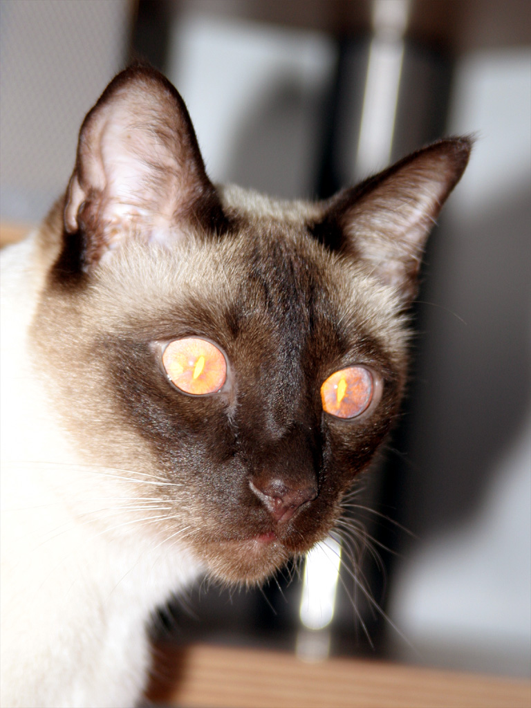 Thaikater (chocolate-point)